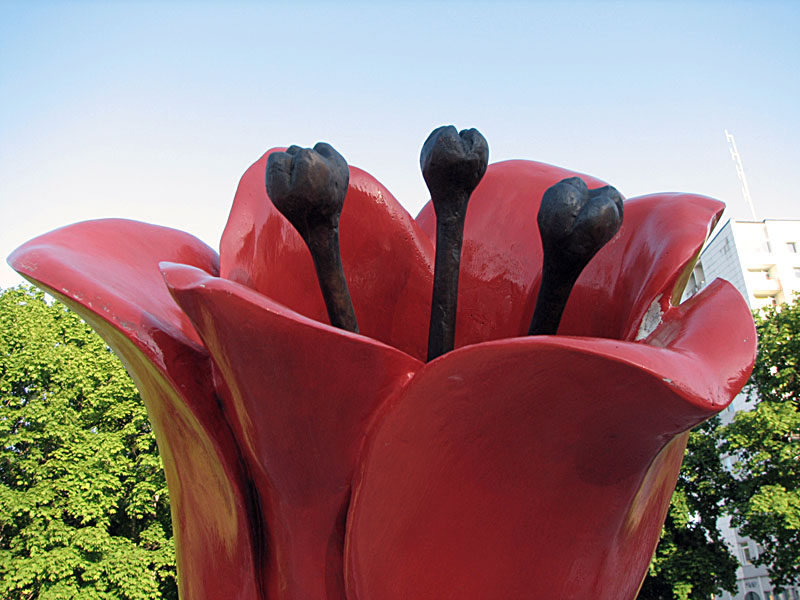 Uppväxter by Birgitta Muhr (1961—) at Högdalen Metro station in Stockholm, Sweden